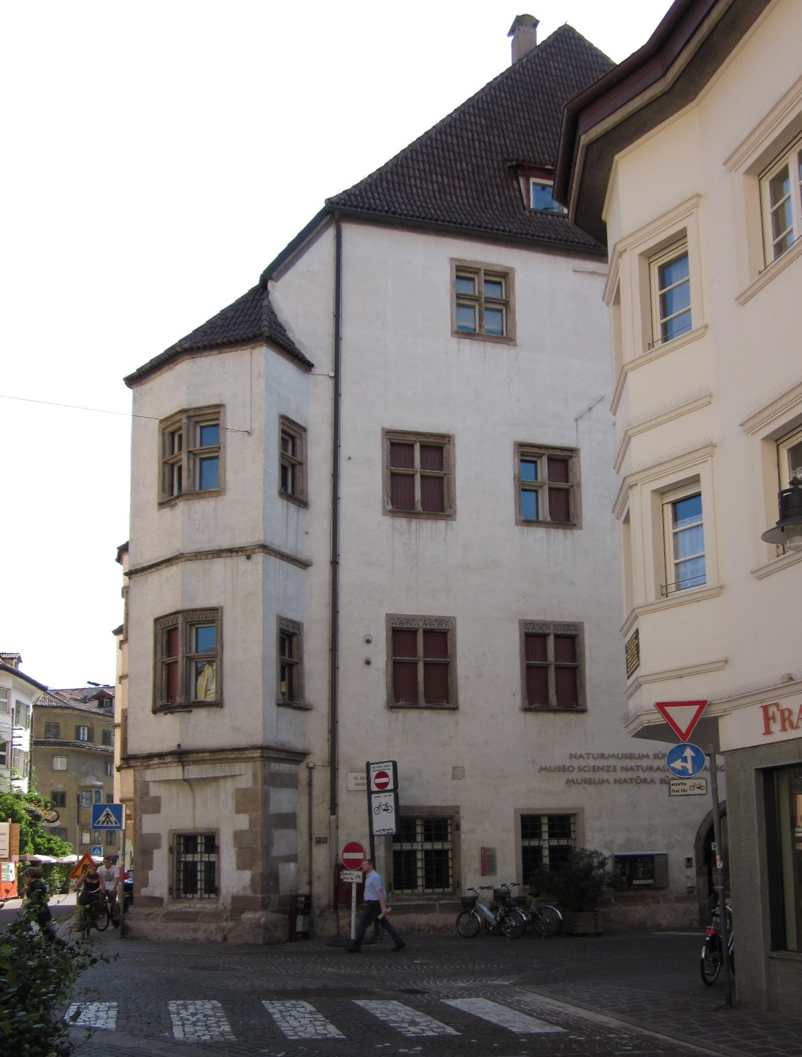 Museum of Nature South Tyrol in Bolzano-Bozen (via Bottai